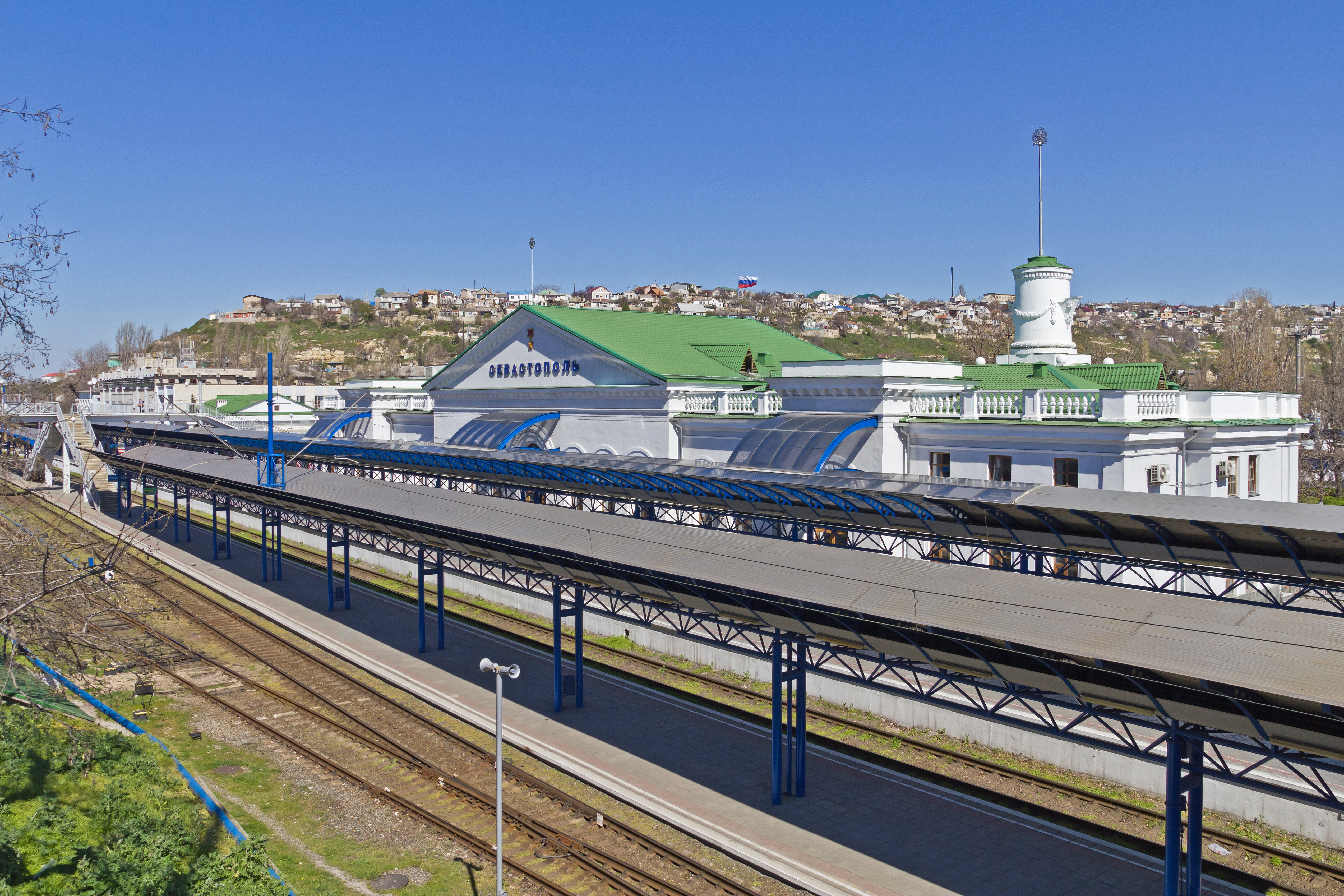 The main railway station in the Federal City of Sevastopol. Crimean peninsula.